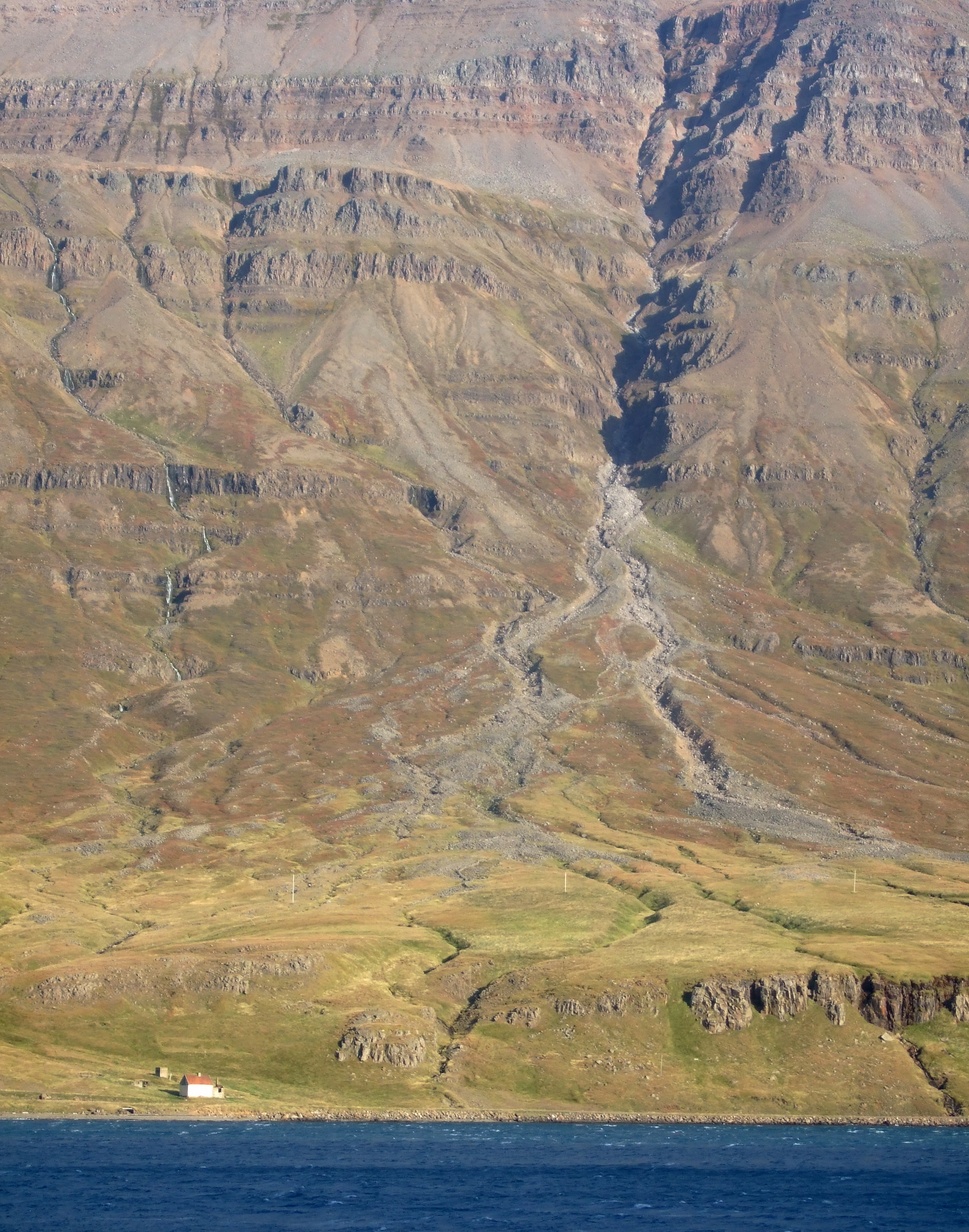 Red Roof House - Seydisfjordur, Iceland